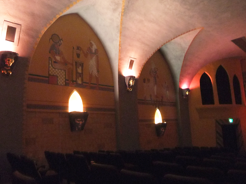 interior wall details of the Egyptian Theatre in Delta, CO